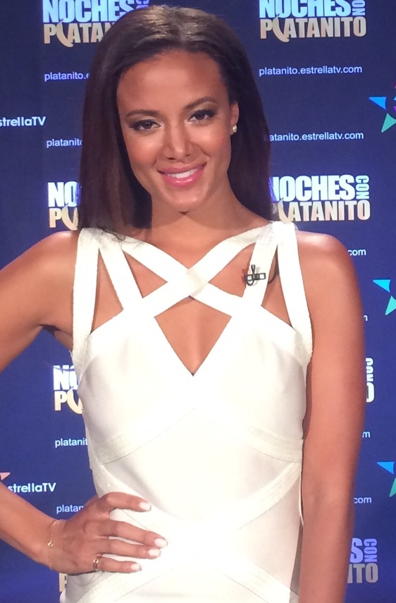 Hemmens at a charity event.